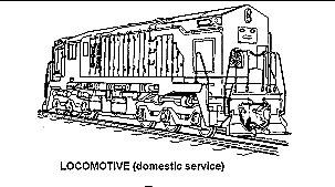 Extracted from the training manual in the link shown. Line drawing of the EMD MRS-1 diesel locomotive.